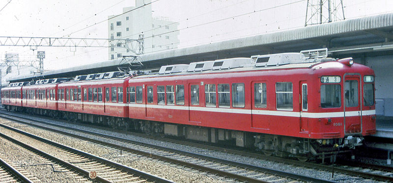 Keikyu 1001 at Minamiota Station